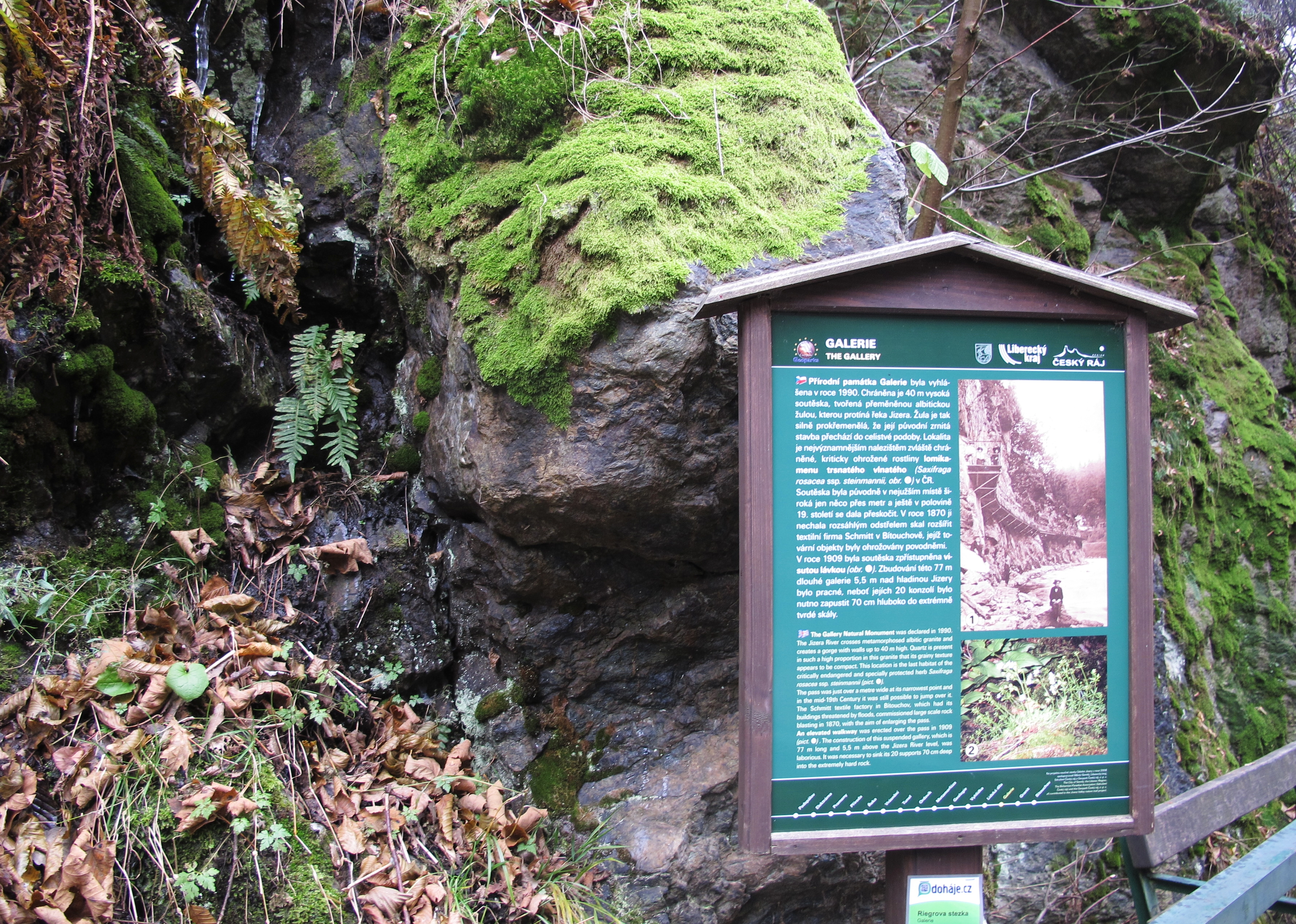 Natural monument Galerie near town Semily (in Semily District - Czech Republic)